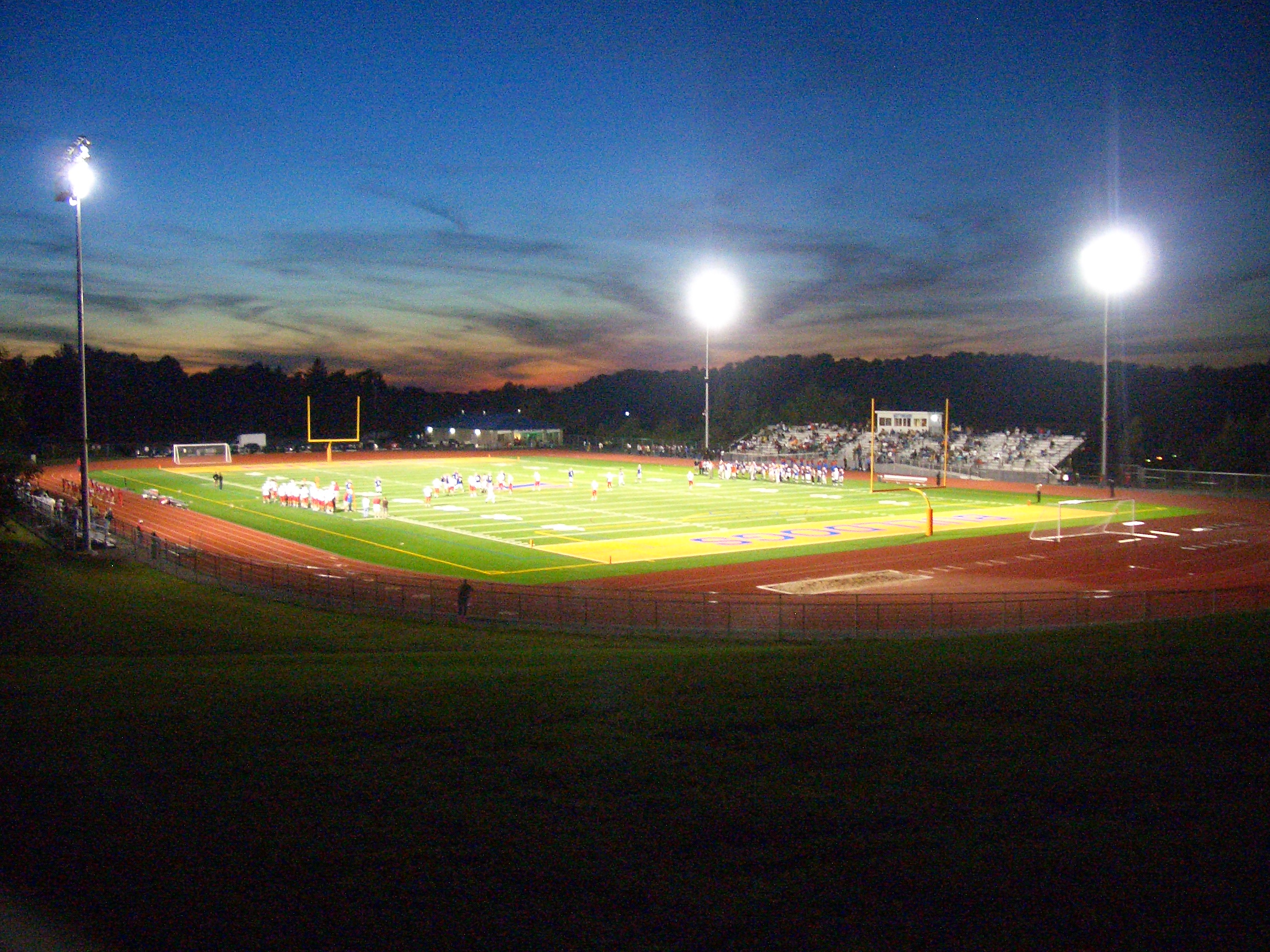 Photograph of a night football game at Nottingham High School in Syracuse, NY.